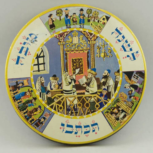 Description: Candy container Object origin: Brooklyn(?), New York, U.S.A. Creator/Photographer: Shor, Ilya; Barton's Inc. Medium: tin Date: copyright 1953 Persistent URL: Repository: Yeshiva University Museum, 15 West 16th Street, New York, NY 10011 Accession number: 2001.363 Rights Information: No known copyright restrictions; may be subject to third party rights. For more copyright information, click here.